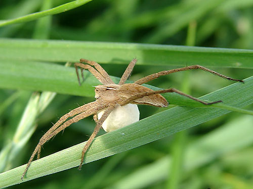 Description= pauk Source= own work Date= 24th May 2006 Author= Katarina Paunovic Permission= yes